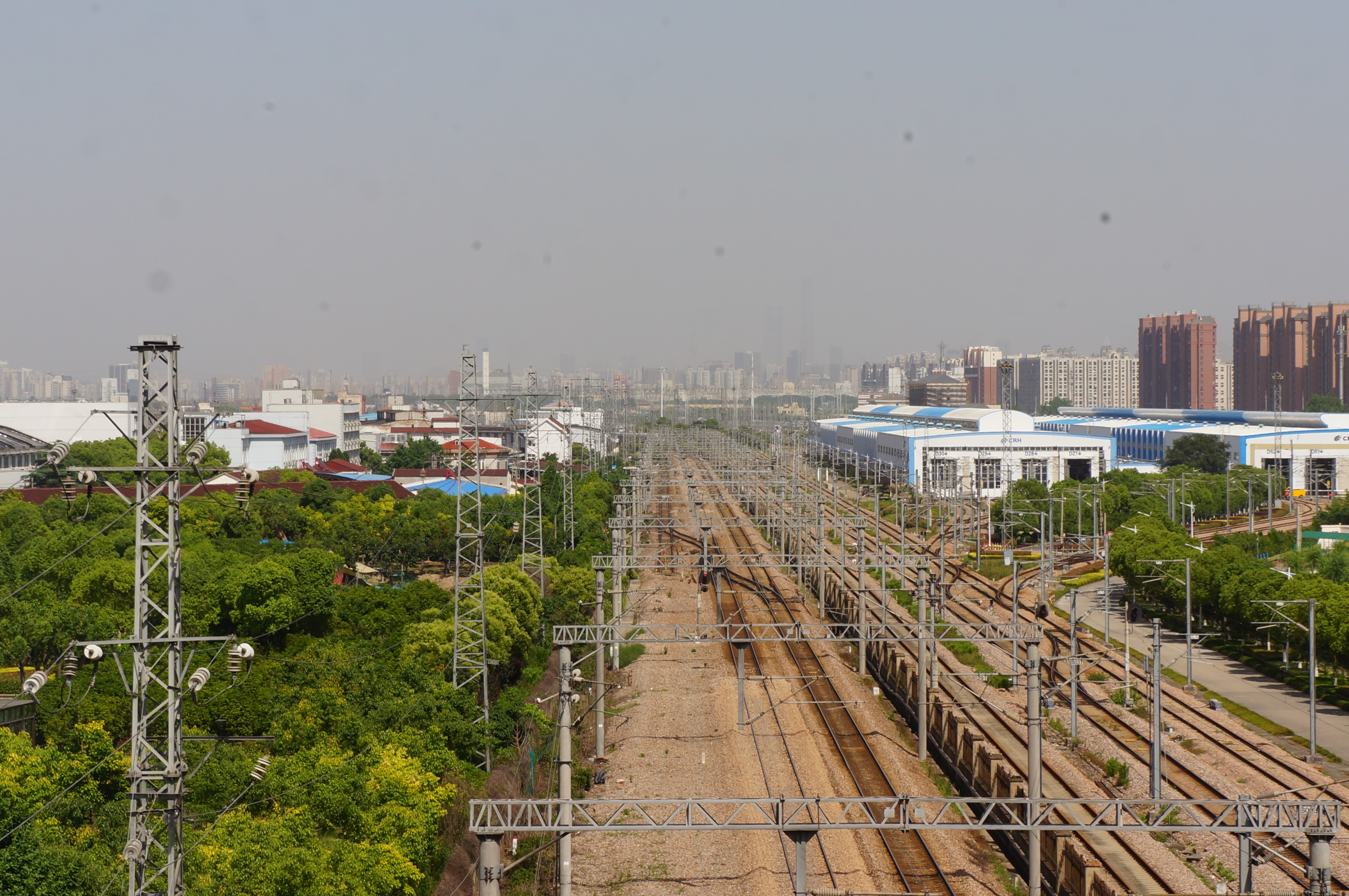 201805 Xiangnan Signal Base, located at the former Kuangxiang Station?